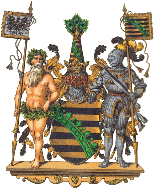 Coat of arms of Saxony as a Prussian province.